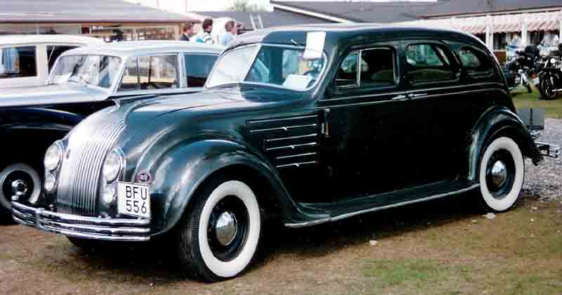 Chrysler Airflow Series CU 4-Door Sedan 1934